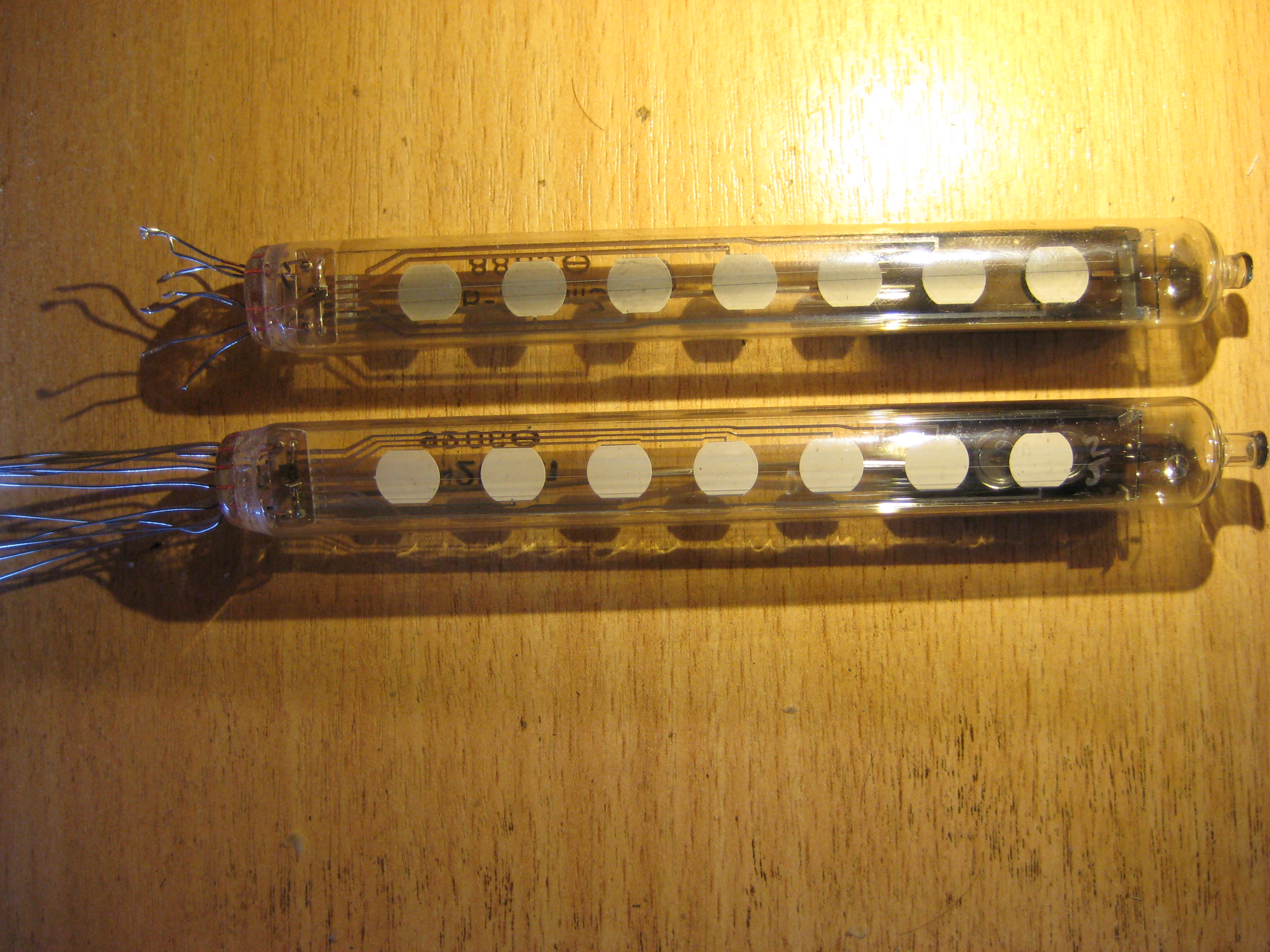 IV-26 VFD of type 1 (bottom) and type 3 (upper). Capable to display 7 circle points, and usually are combined into a matrix. Different types of IV-26 have different internal connections and pinout.